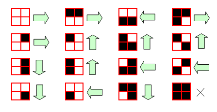 Table of marching squares algorithm. جدول لاحتمالات حركة خوارزمية المربعات السيارة